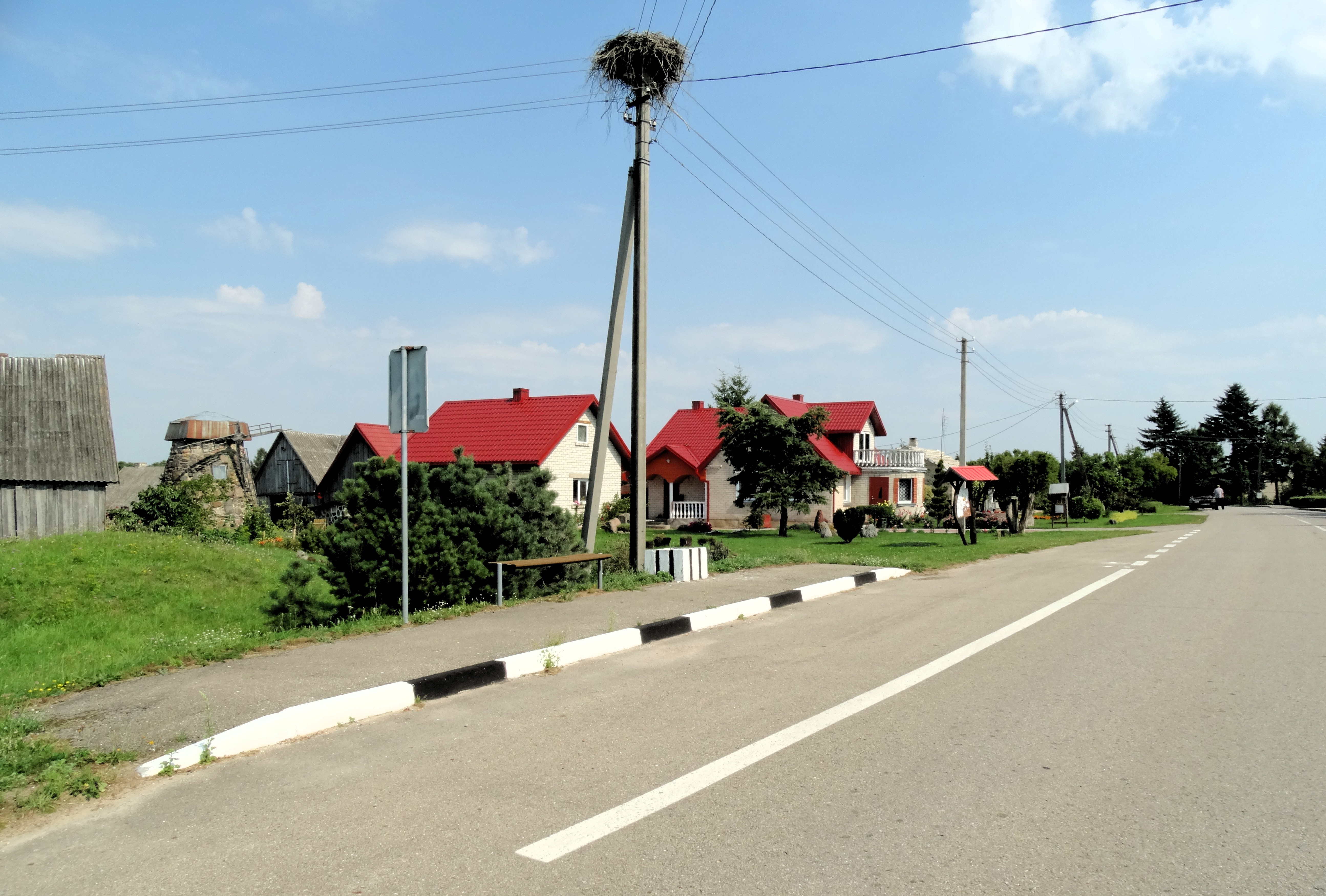 Raistai, Joniškis district, Lithuania